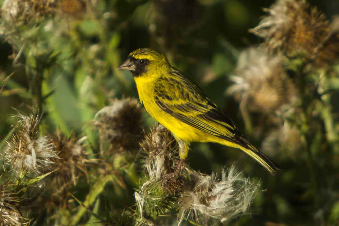 African Citril - Naivasha - Kenya_06_9856